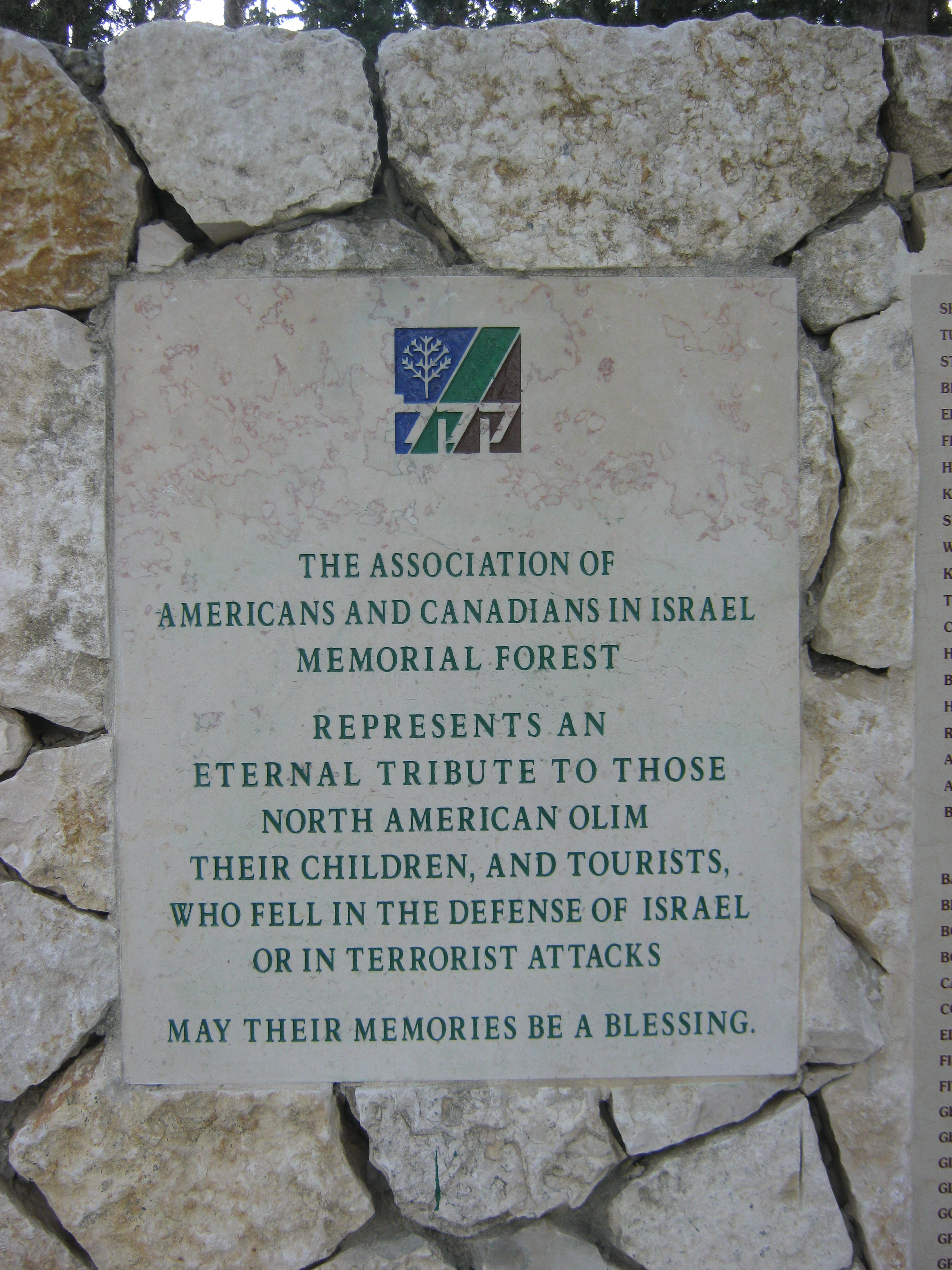 Association of Americans and Canadians in Israel Memorial Forest, Itzhak Rabin Park